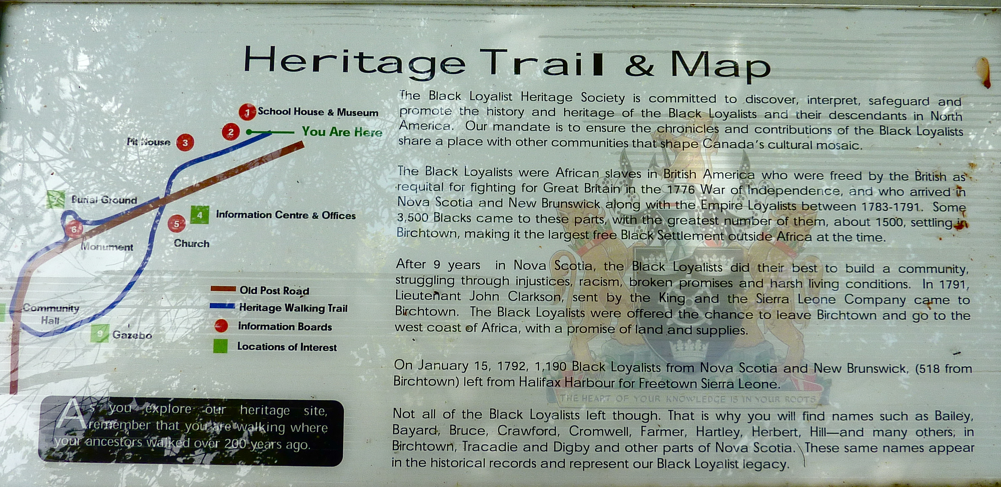 An interpretive sign along the Heritage Trail at the Birchtown, Nova Scotia museum.